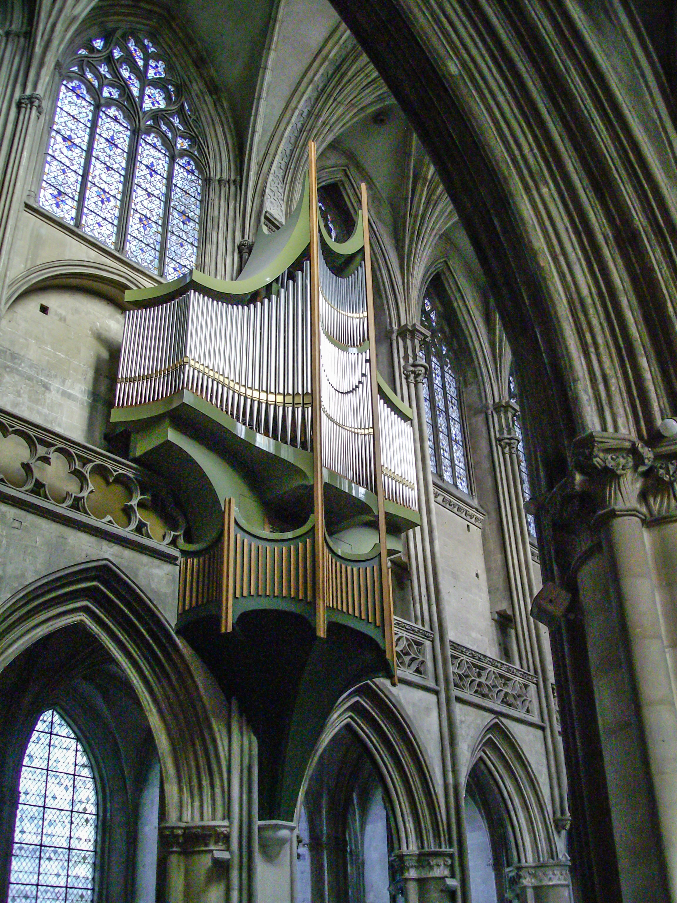 Saint-Pierre Church of Caen in the Calvados department (France)